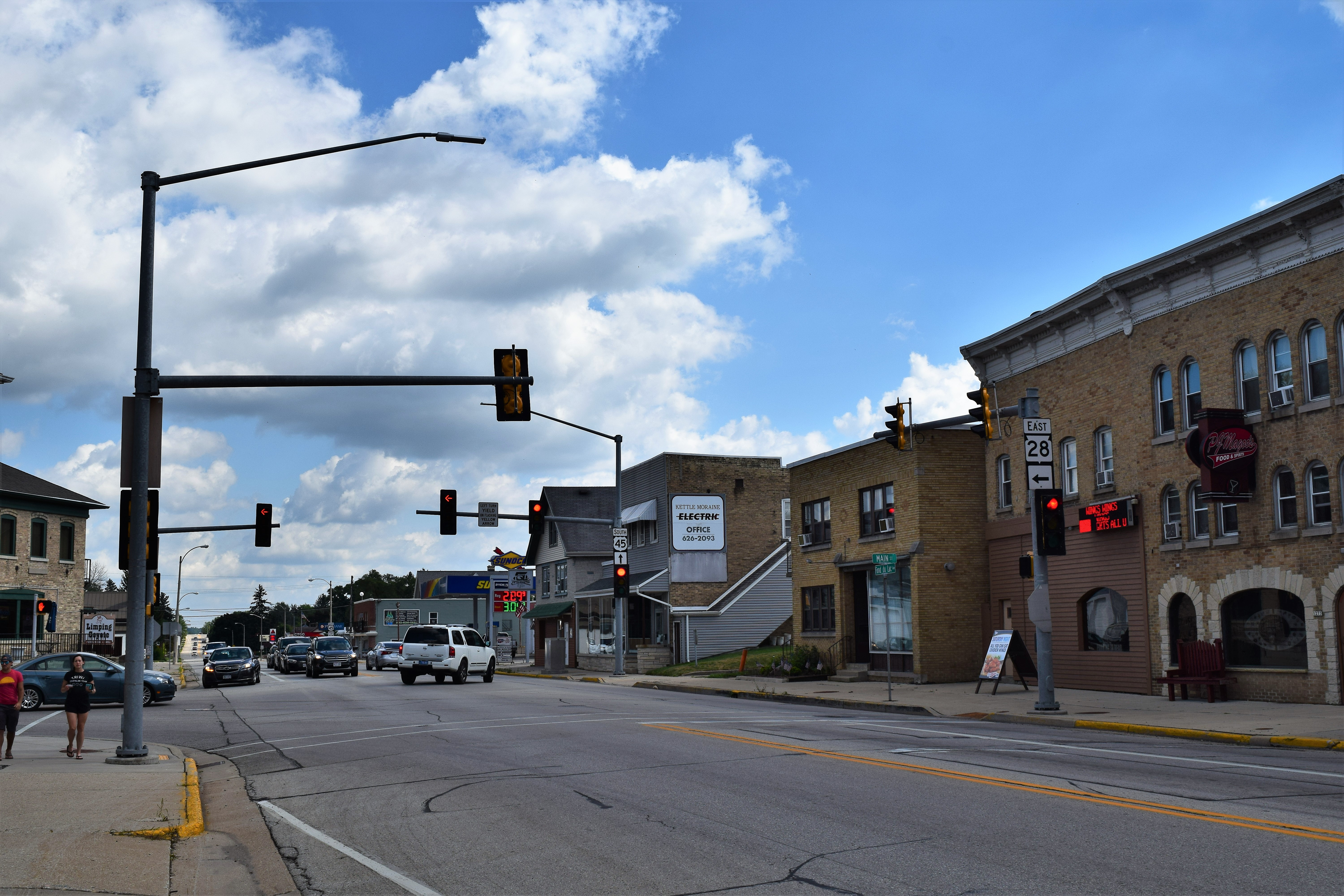 The intersection of U.S. Route 45 and Wisconsin Highway 28 in downtown Kewaskum, Wisconsin.